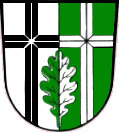 Coat of Arms of Altenbuch